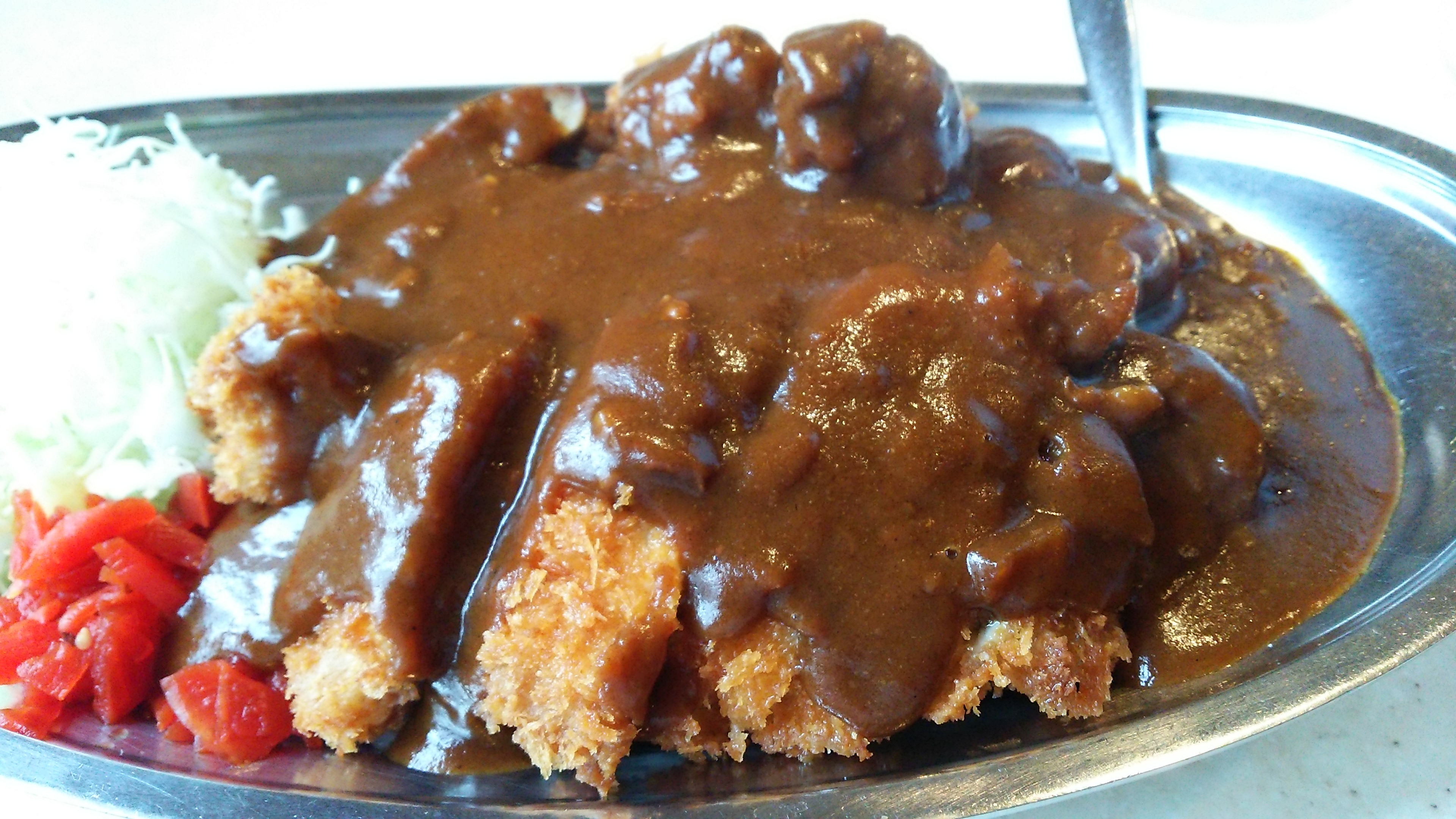 Manrui Home Run Curry of Curry No Shimin Alba at Komatsu-shi, Ishikawa Japan. Photographed on September 21, 2015.